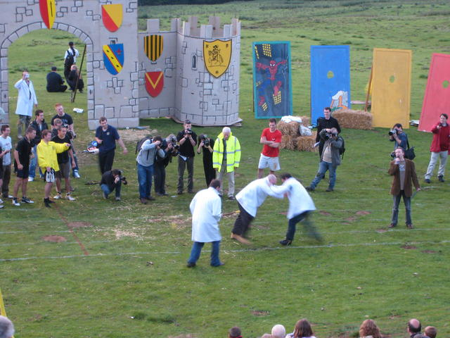 Two men are attempting to wrestle the other to the ground by kicking his opponent's shins.